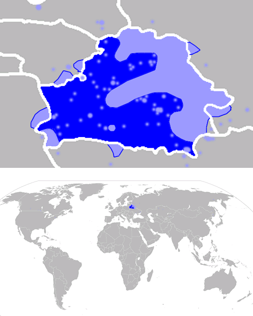 dark blue - territory, where Belarusian language is used chiefly, light blue - other territories of using of the language